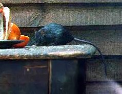 Black rat (Rattus rattus) photographed at London Zoo.